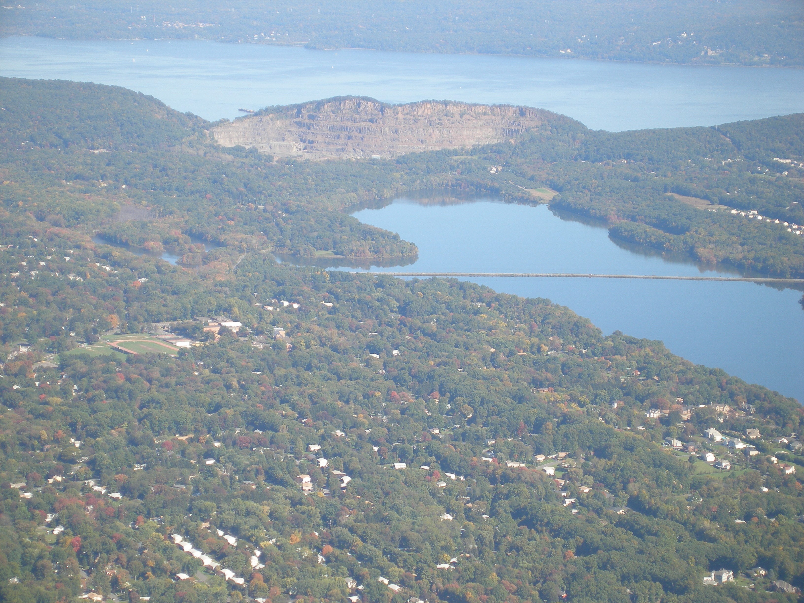 DeForest Lake with a view north toward Haverstraw Beach, New City, New York, USA October, 2006